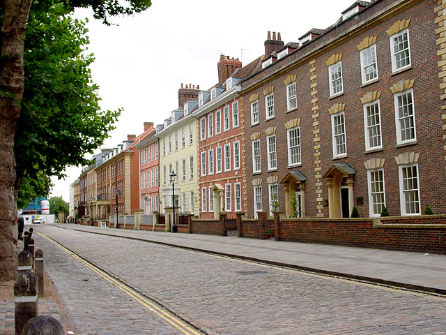 Queen Square, South Side, Bristol - The buildings along the south side of the square together with the re-instated cobbled road.